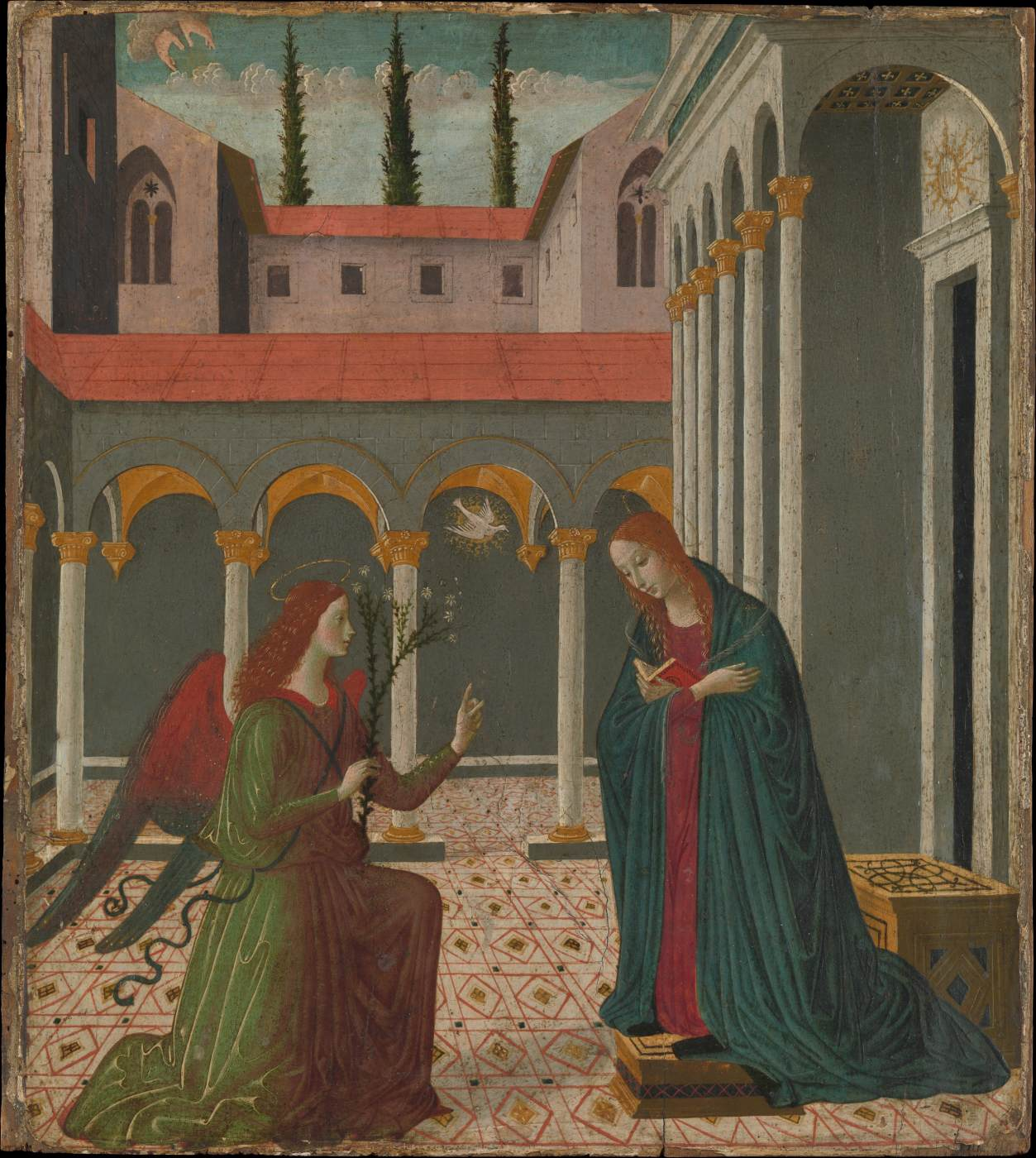 Annunciation 1480-1500 Tempera and gold on wood, 41 x 36 cm Metropolitan Museum of Art, New York